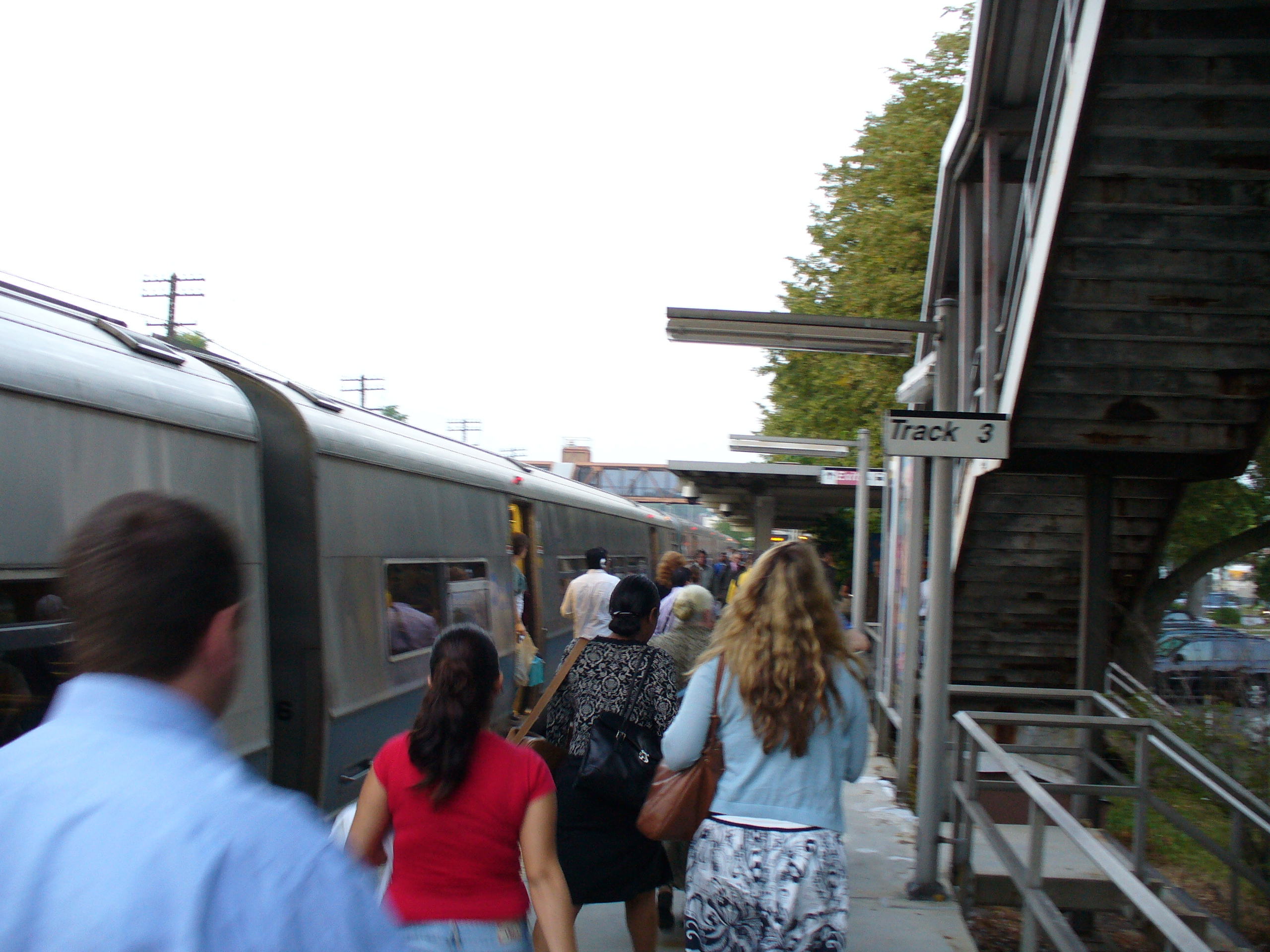 Tarrytown Metro North Station